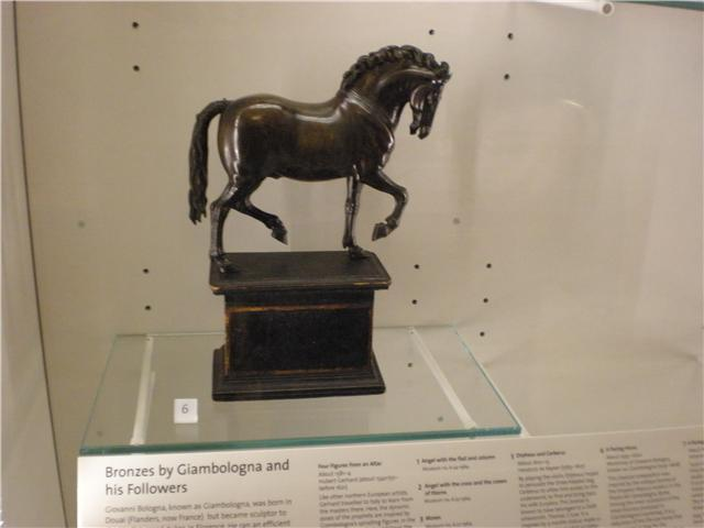 A Pacing Horse About 1595-1600 Workshop of Giovanni Bologna, known as Giambologna (1529-1608) This classical composition was inspired by the antique bronze of the Emperor Marcus Aurelius in the Piazza del Campidoglio, Rome. Among the most successful of the small bronzes produced in Giambologna's workshop, it is a reduction of the life-size horse that he designed in 1594 for the monument to Cosimo I de'Medici in the Piazza della Signoria, Florence. Italy, Florence. Bronze Museum no. A.148-1910 Salting Bequest Wikipedia Loves Art at the Victoria and Albert Museum This photo of item # [1] at the Victoria and Albert Museum was contributed under the team name "va_va_val" as part of the Wikipedia Loves Art project in February 2009. Victoria and Albert Museum The original photograph on Flickr was taken by Val_McG—please add a comment to the original Flickr page whenever a use has been made on Wikipedia or another project. Project galleries on Flickr: this institution, this team